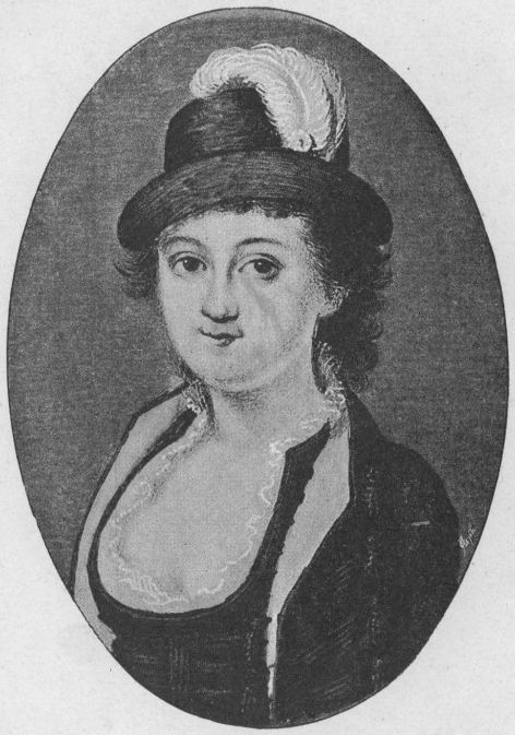 Ewa (Awacza) Frank (1754-1816).